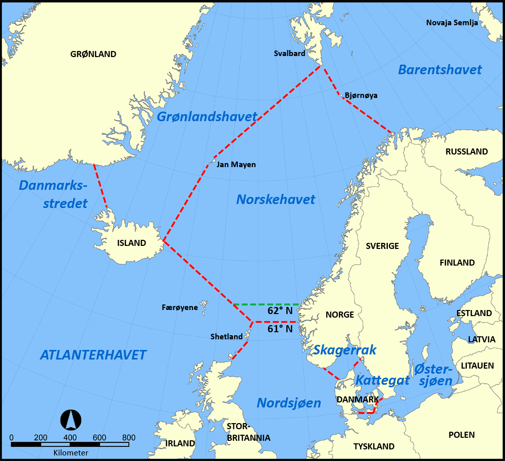 A map in Nowegian showing the location of the Norwegian Sea in the North Atlantic Ocean.